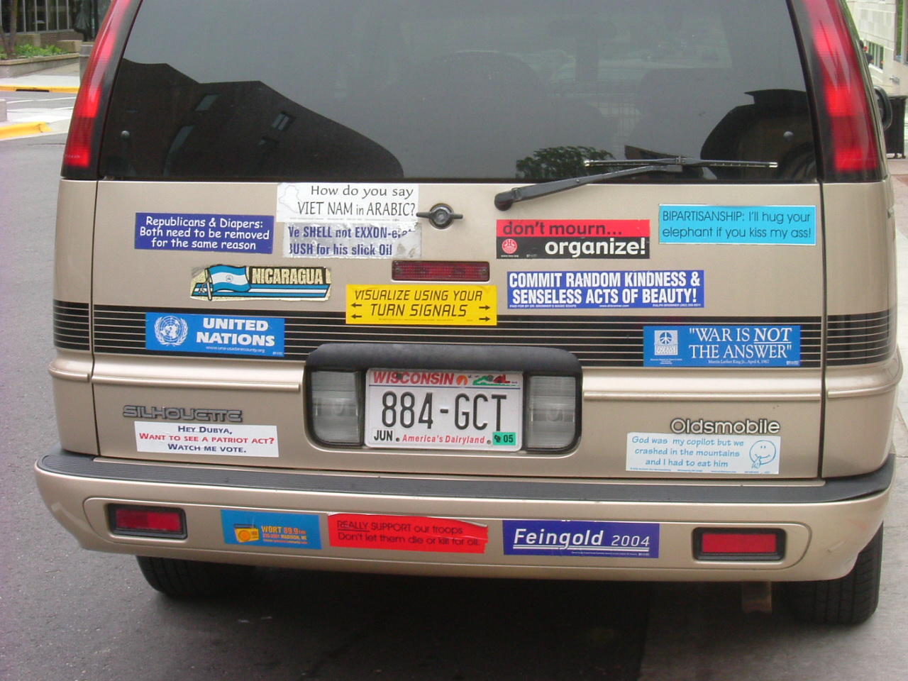 Many bumper stickers